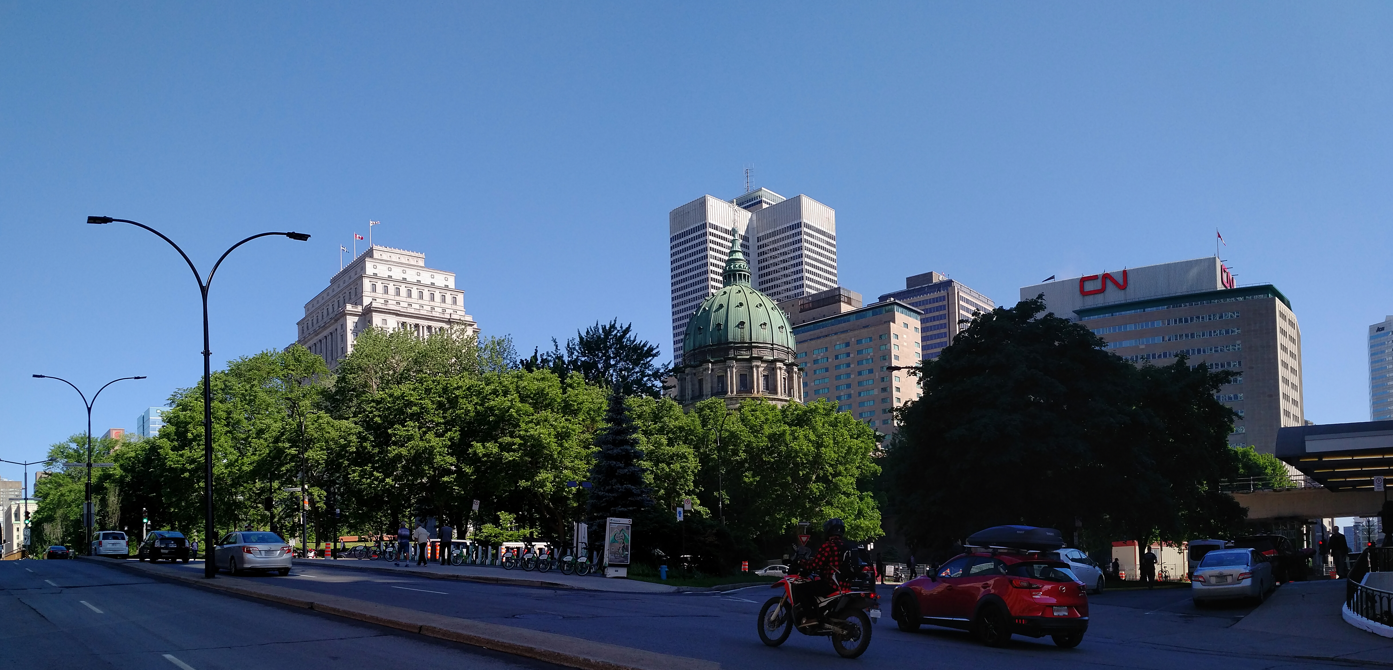 Sun Life building, Canadian National Railway Building, Cathedral-Basilica of Mary, Queen of the World, Place Ville-Marie, on Peel Street.